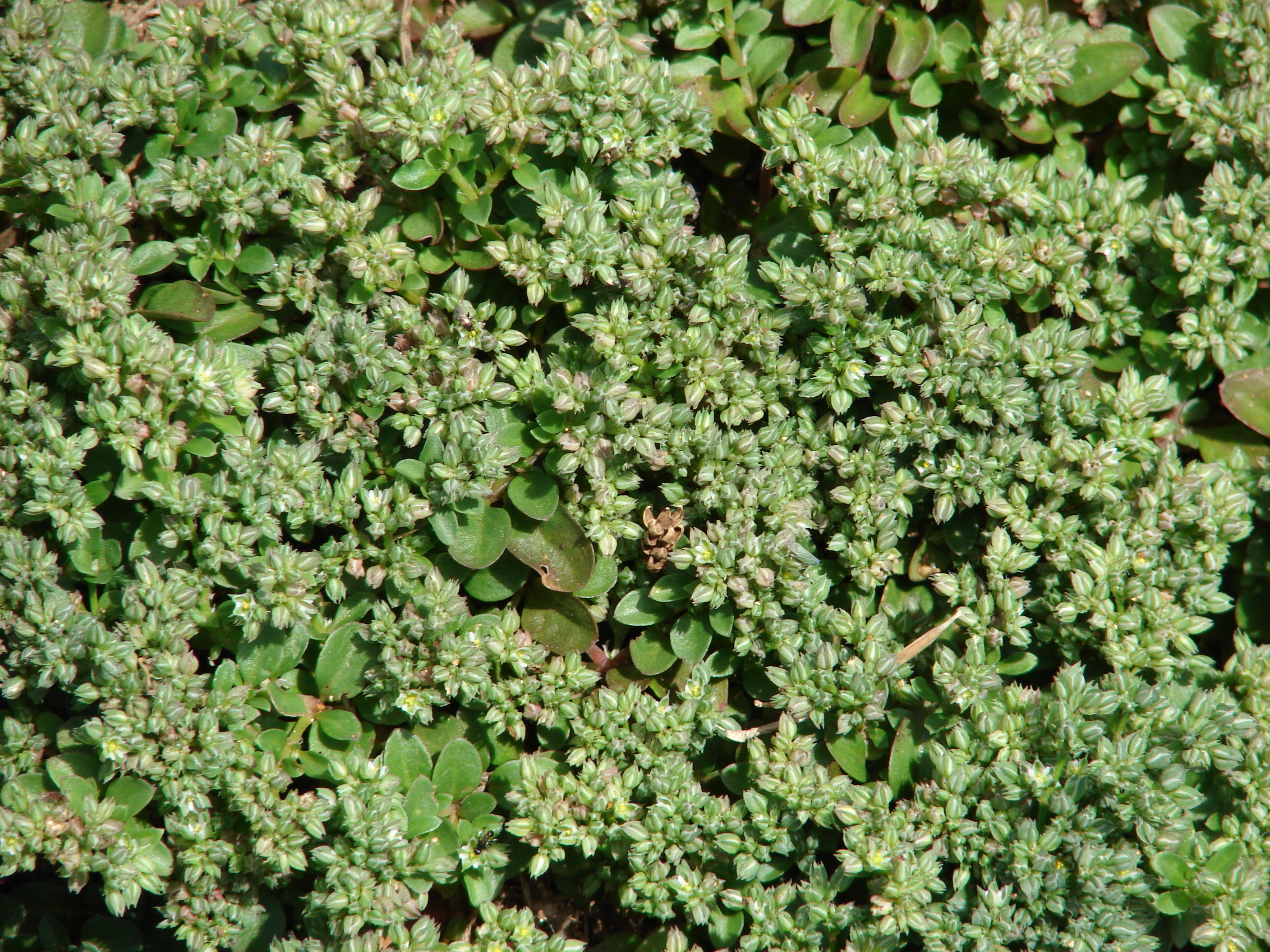 Polycarpon tetraphyllum (flowers). Location: Maui, Makawao